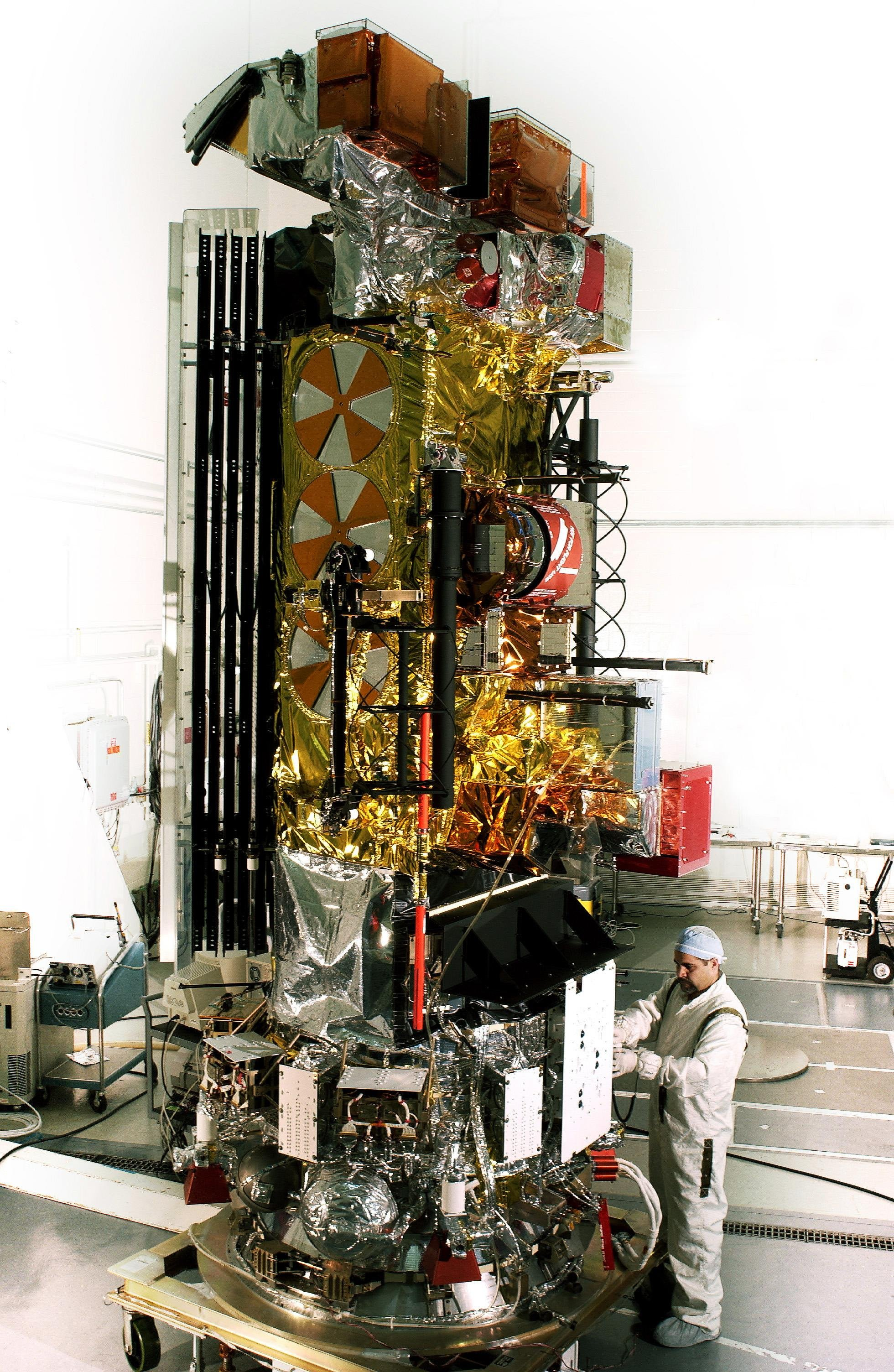 NOAA-M (NOAA-17) spacecraft being prepared for launch. Vandenberg AFB, California, United States. 8 June 2002.